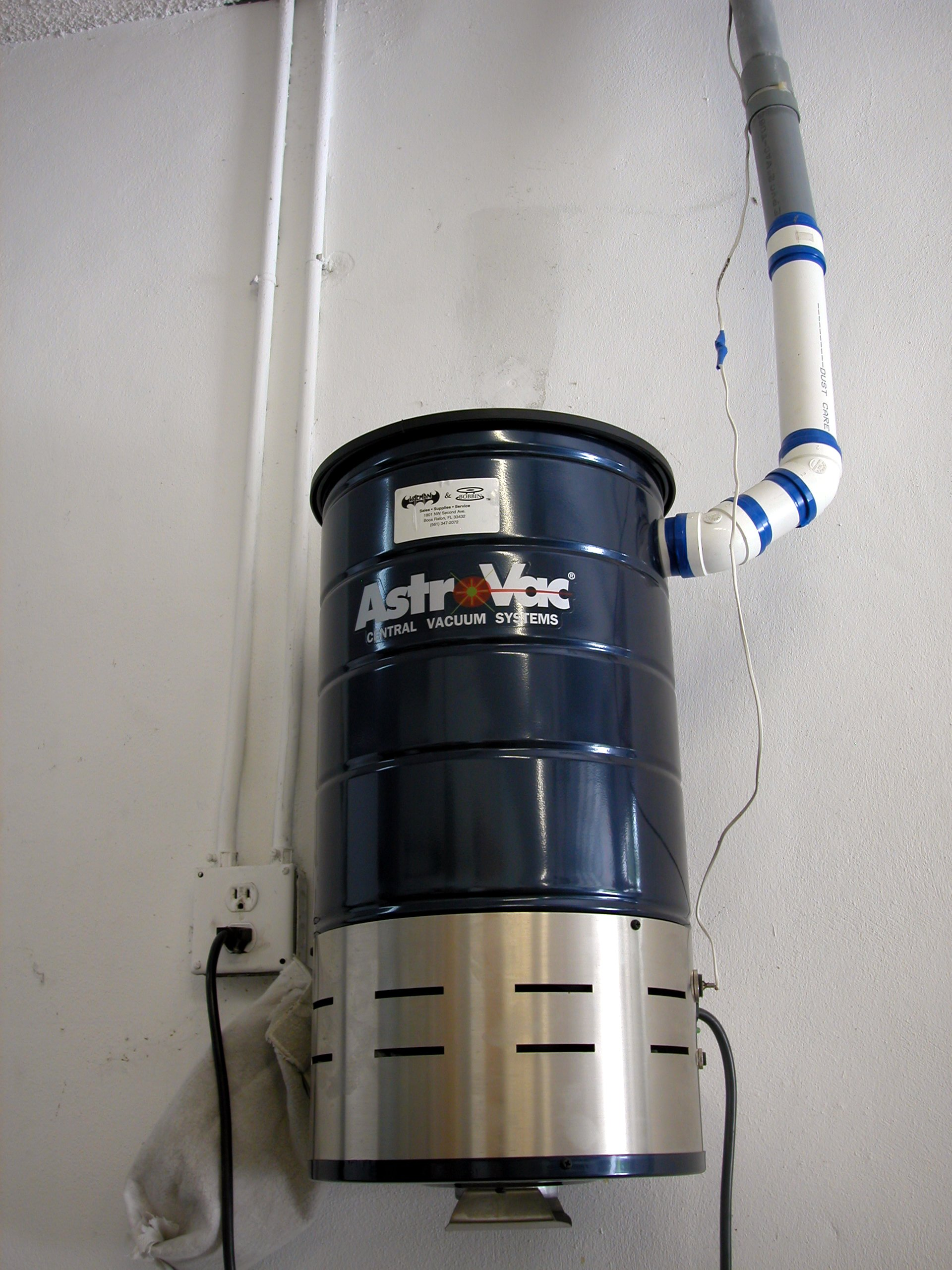 An AstroVac SR-50 central vacuum power unit installed in a large house. This is one of two units installed there.